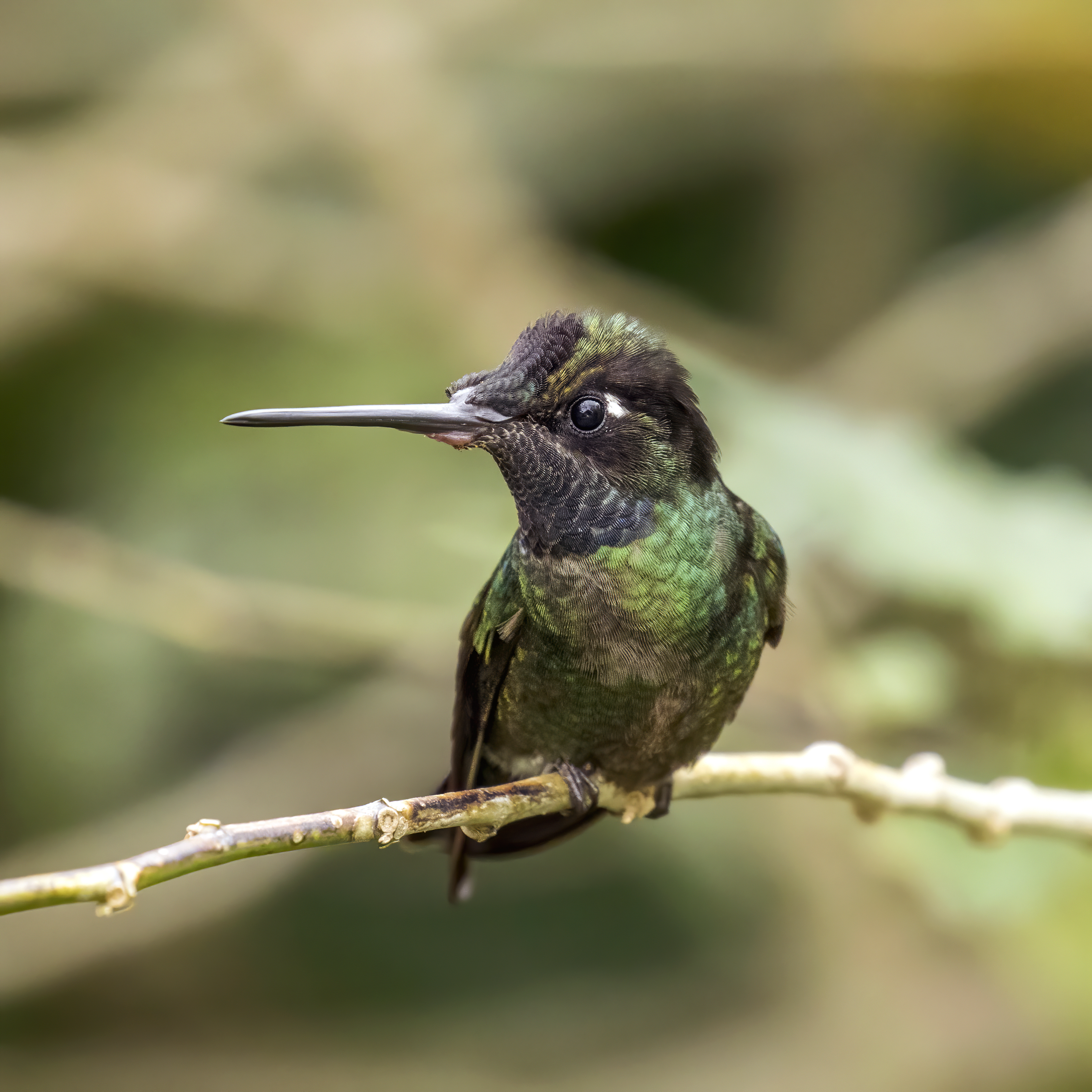 Talamanca hummingbird (Eugenes spectabilis) male, Mount Totumas cloud forest, Panama